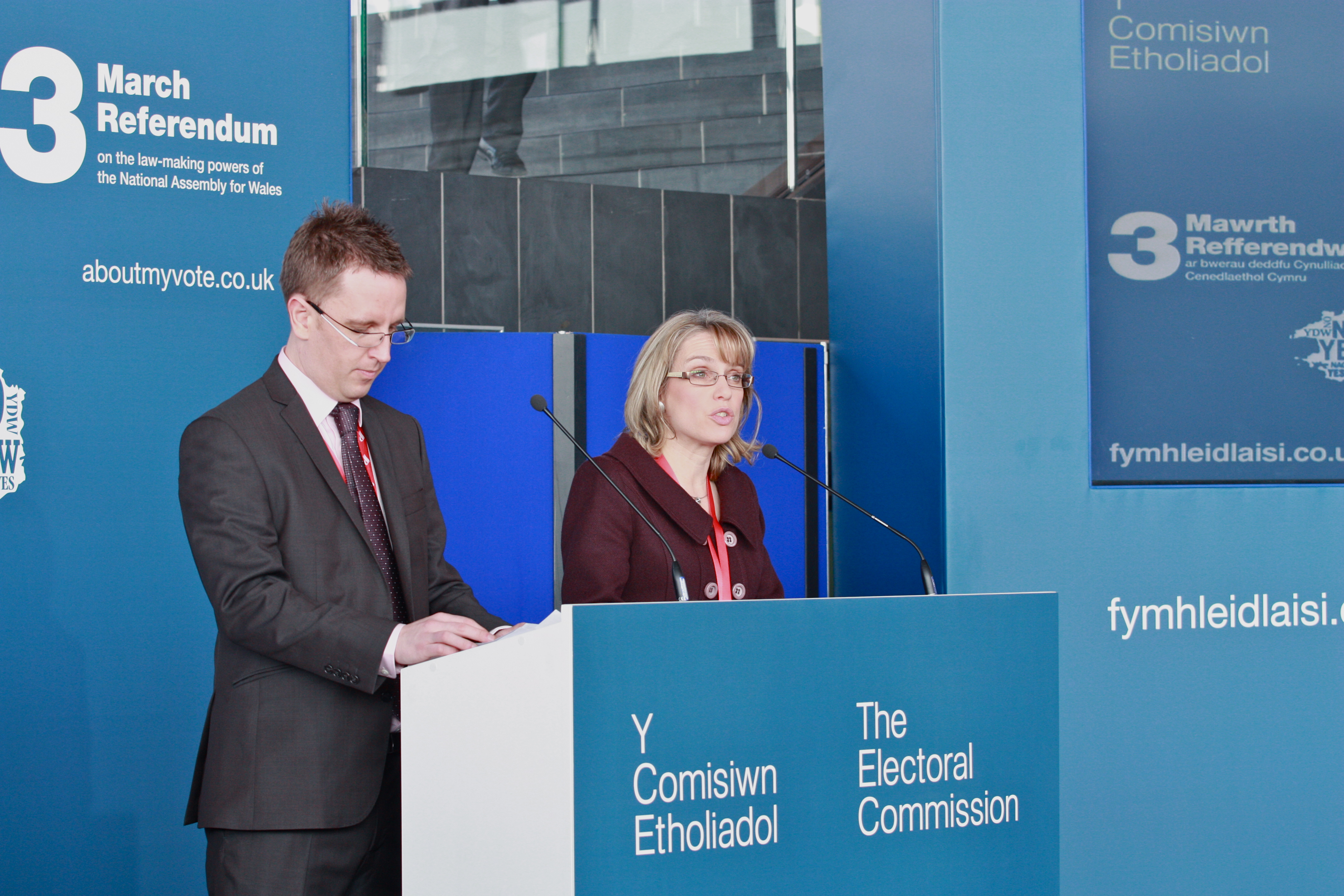 2011 Referendum result announced at the Senedd, National Assembly for Wales, Cardiff, Wales